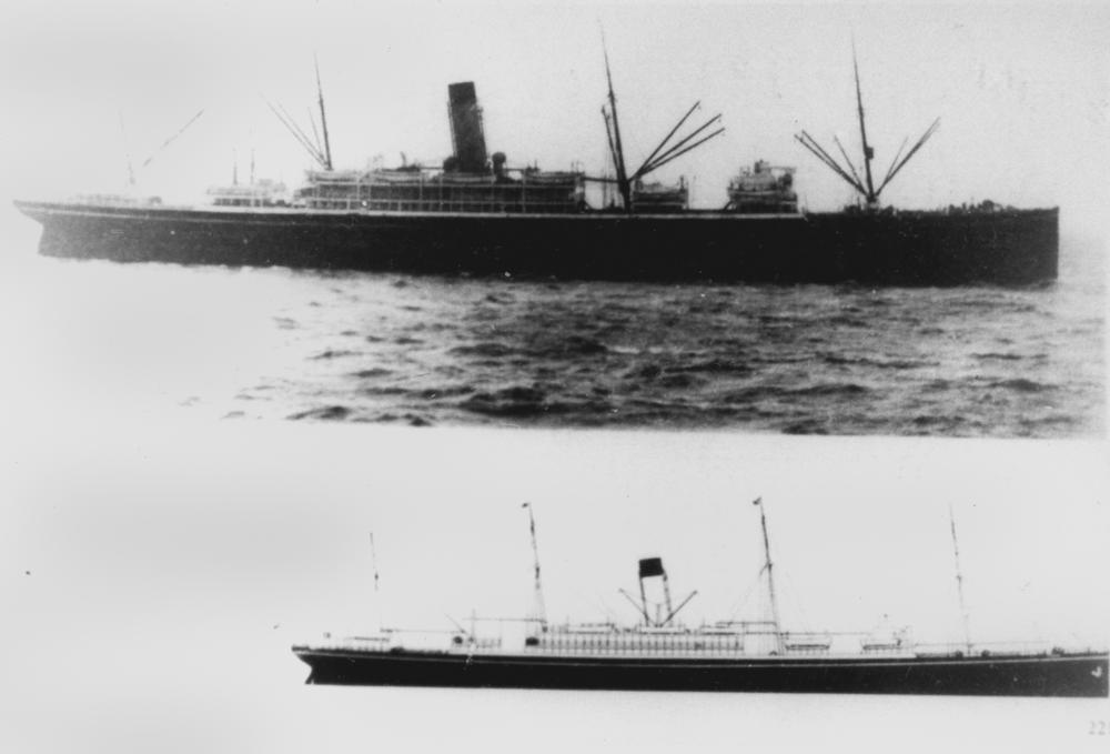 The 12,352 GRT cargo and passenger liner Ionic was built by Harland and Wolff for White Star Line in 1902. She had a speed of 13 knots. In 1934 she was sold to Shaw Savill and Albion Line. She was broken up in Japan in 1936.